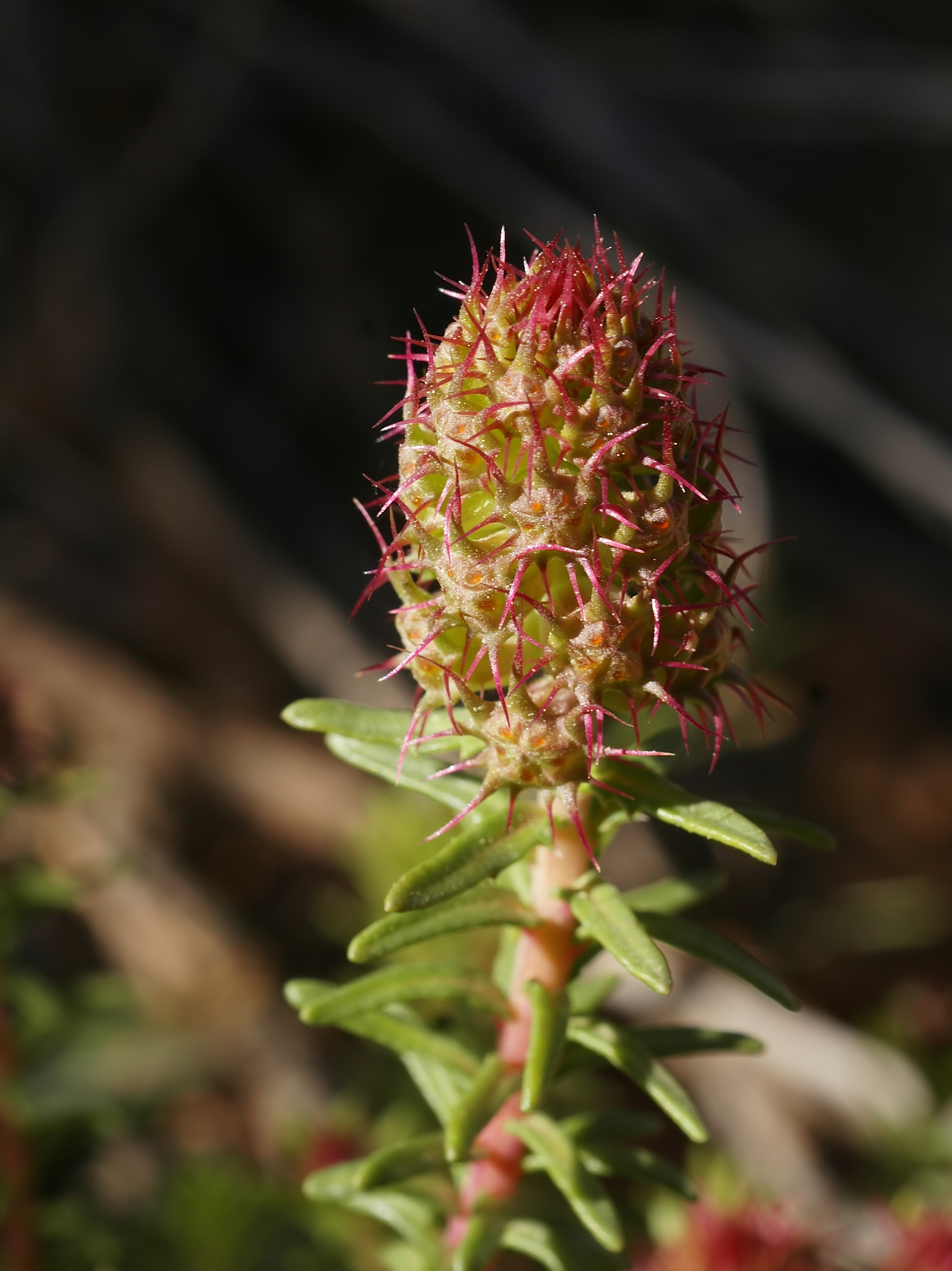 Flower buds close to Bot, Catalonia, Spain